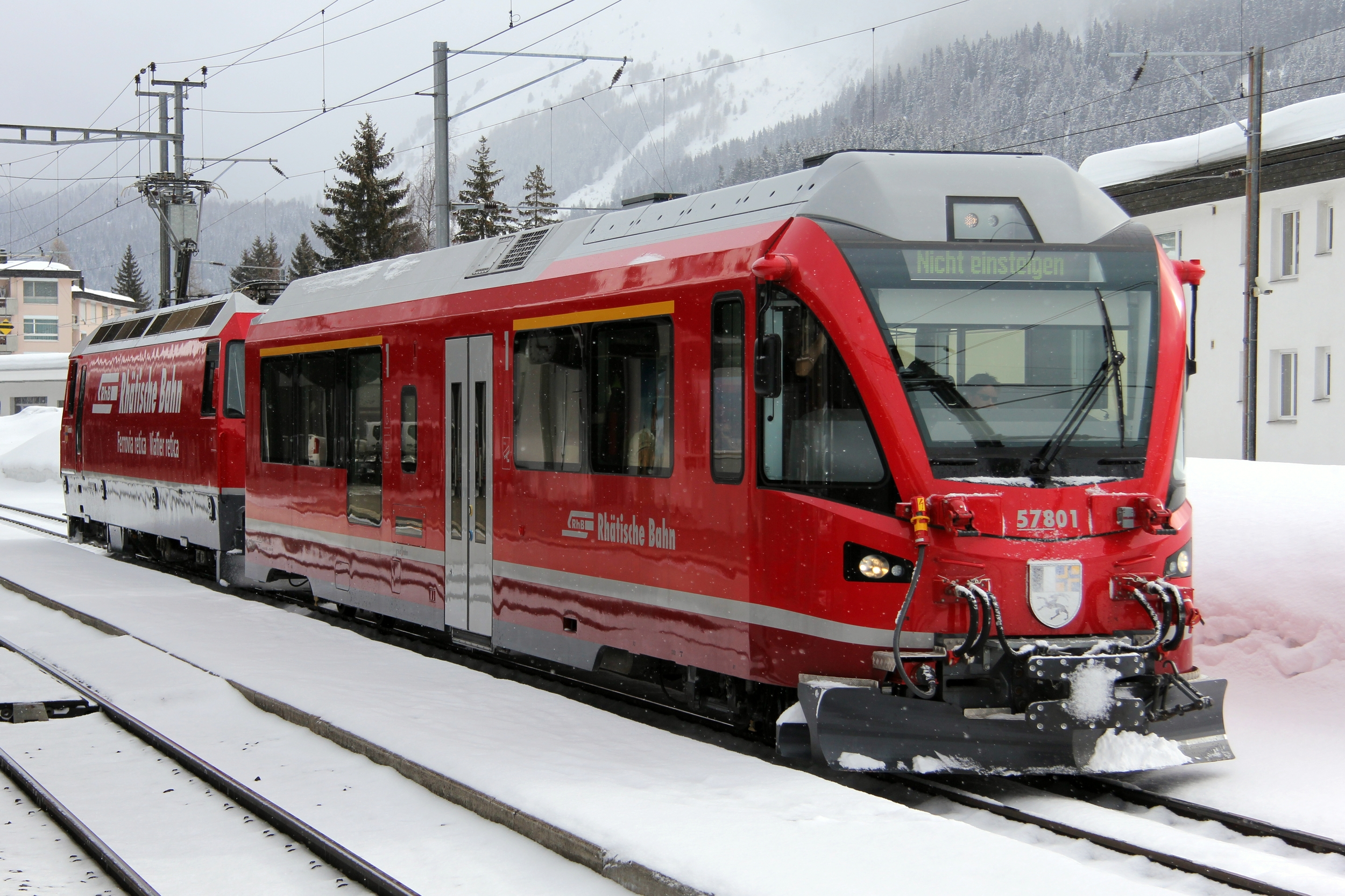 RhB Ait 578 01 and Ge 4/4 III 647 at the Davos Dorf train station.